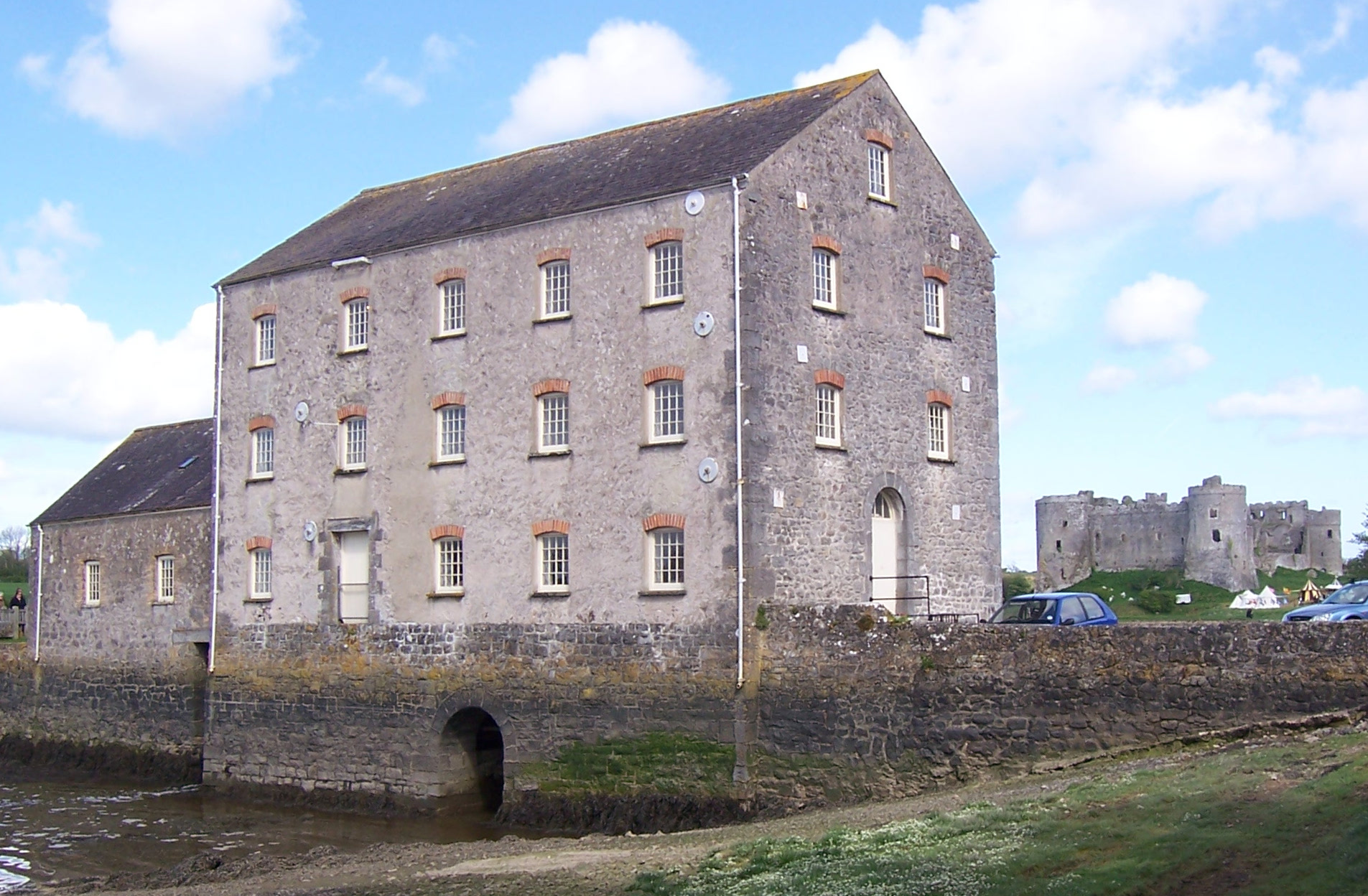 The tide mill at Carew Castle, Pembrokeshire, Wales The tide mill at Carew Castle, Pembrokeshire, Wales